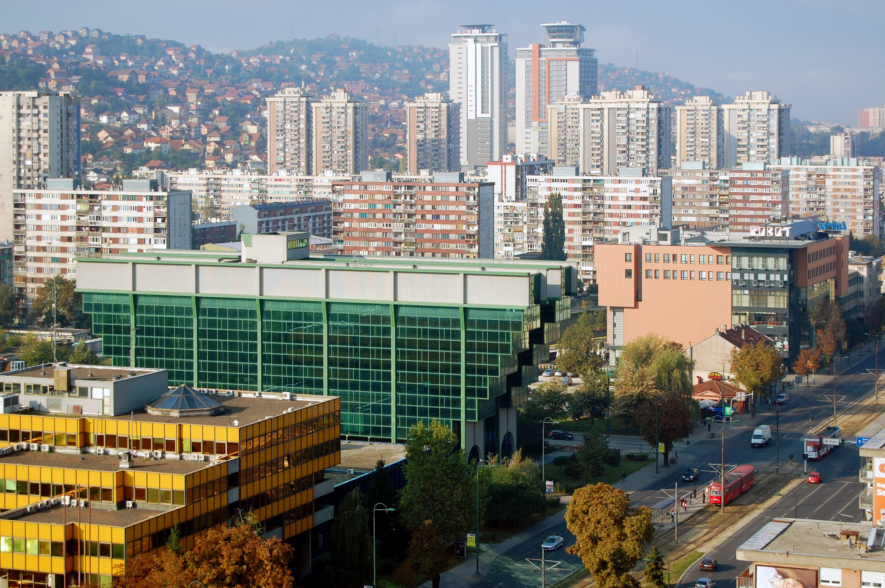 Novo Sarajevo on September 25, 2011